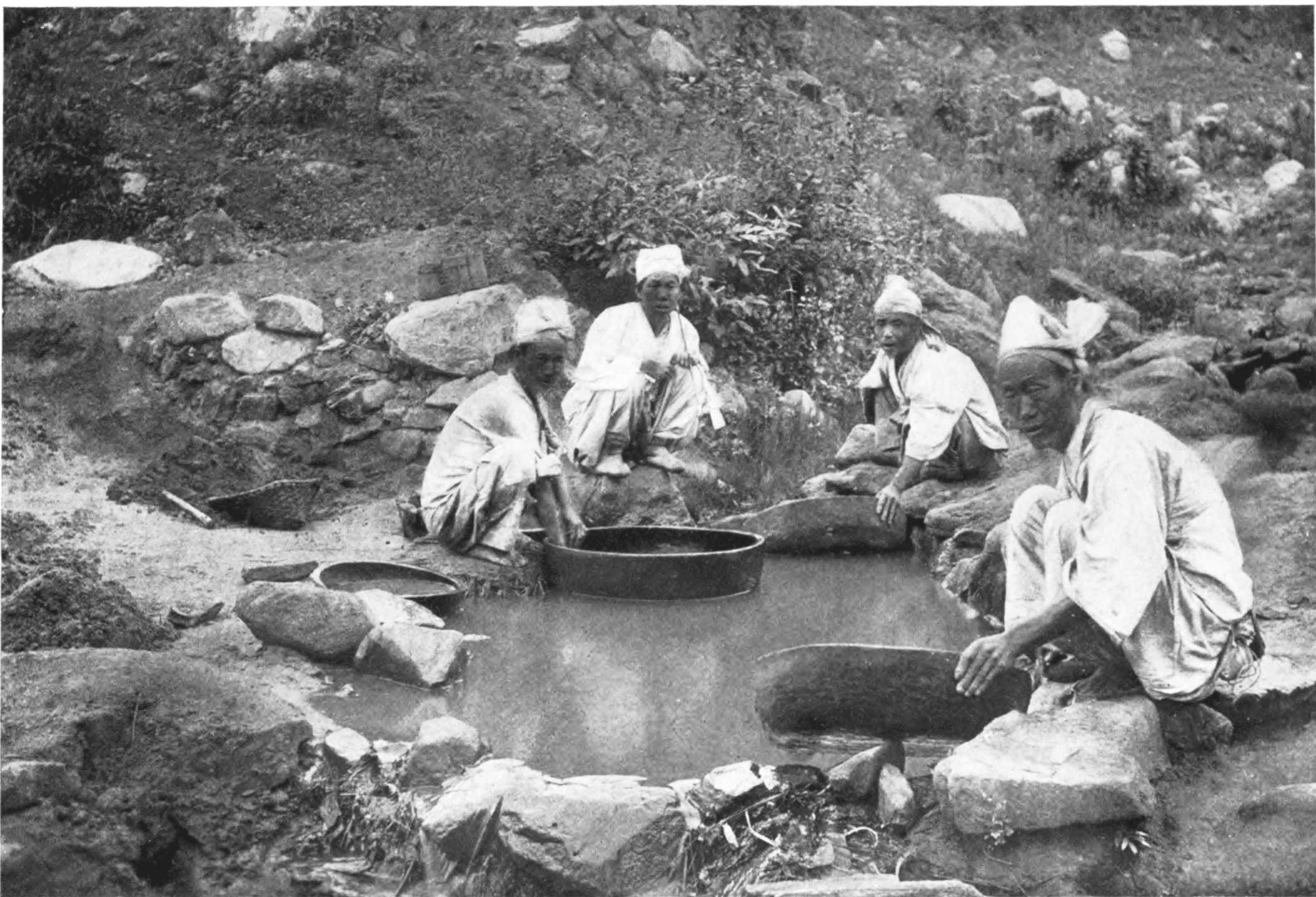 Placer gold-mining, Korea, c1900; /355. The passing of Korea (book)